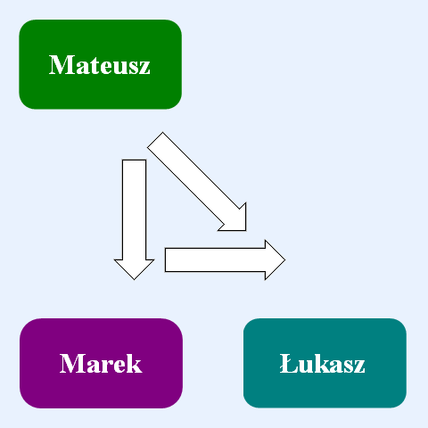 Synoptic Problem according Augustine